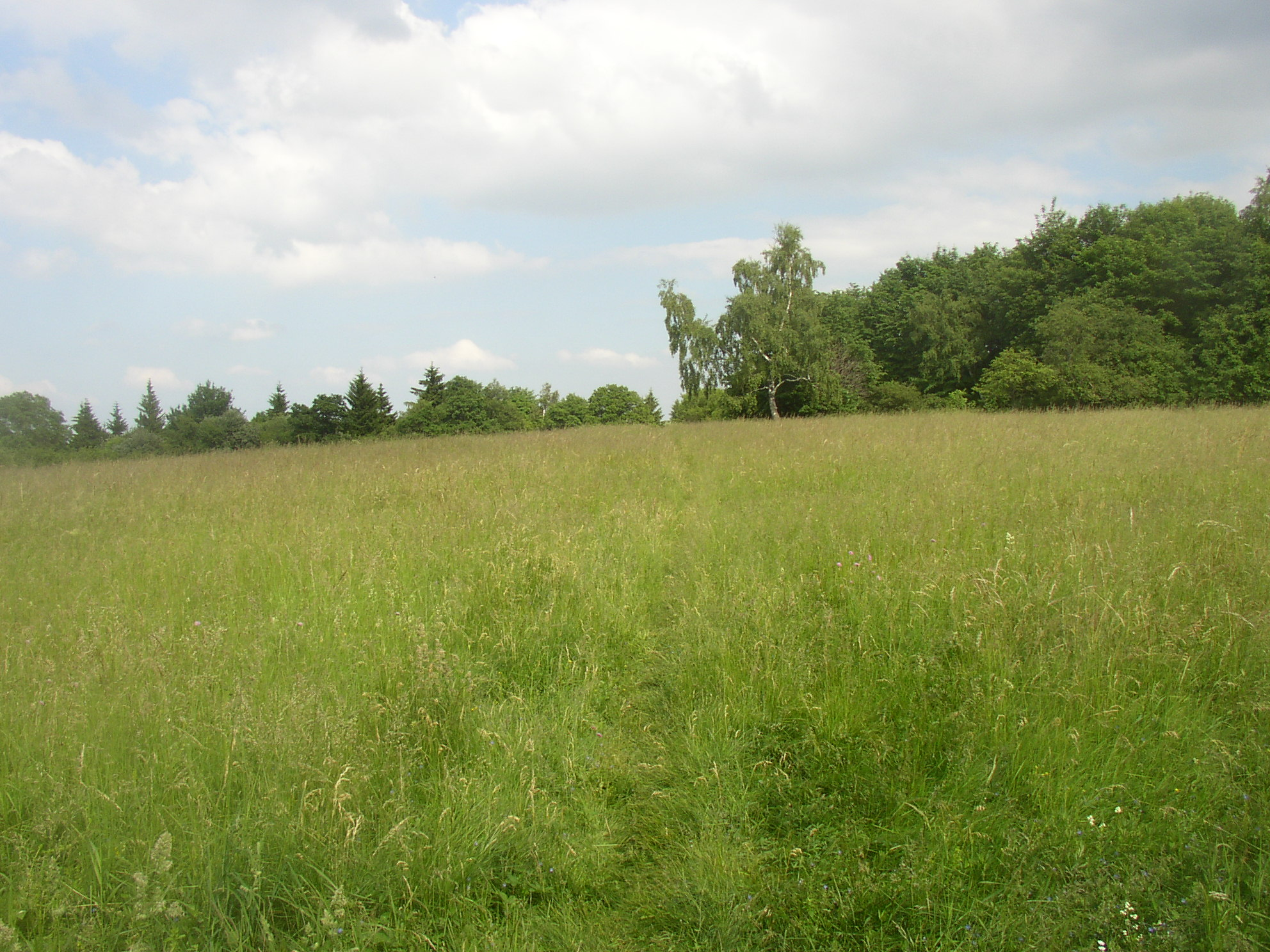 České středhoří, Czech Republic. Hradišťanská louka (Hradišťany Meadow) Nature Reserve, a highland meadow on top plateau of Hradišťany Mt. (752 m).